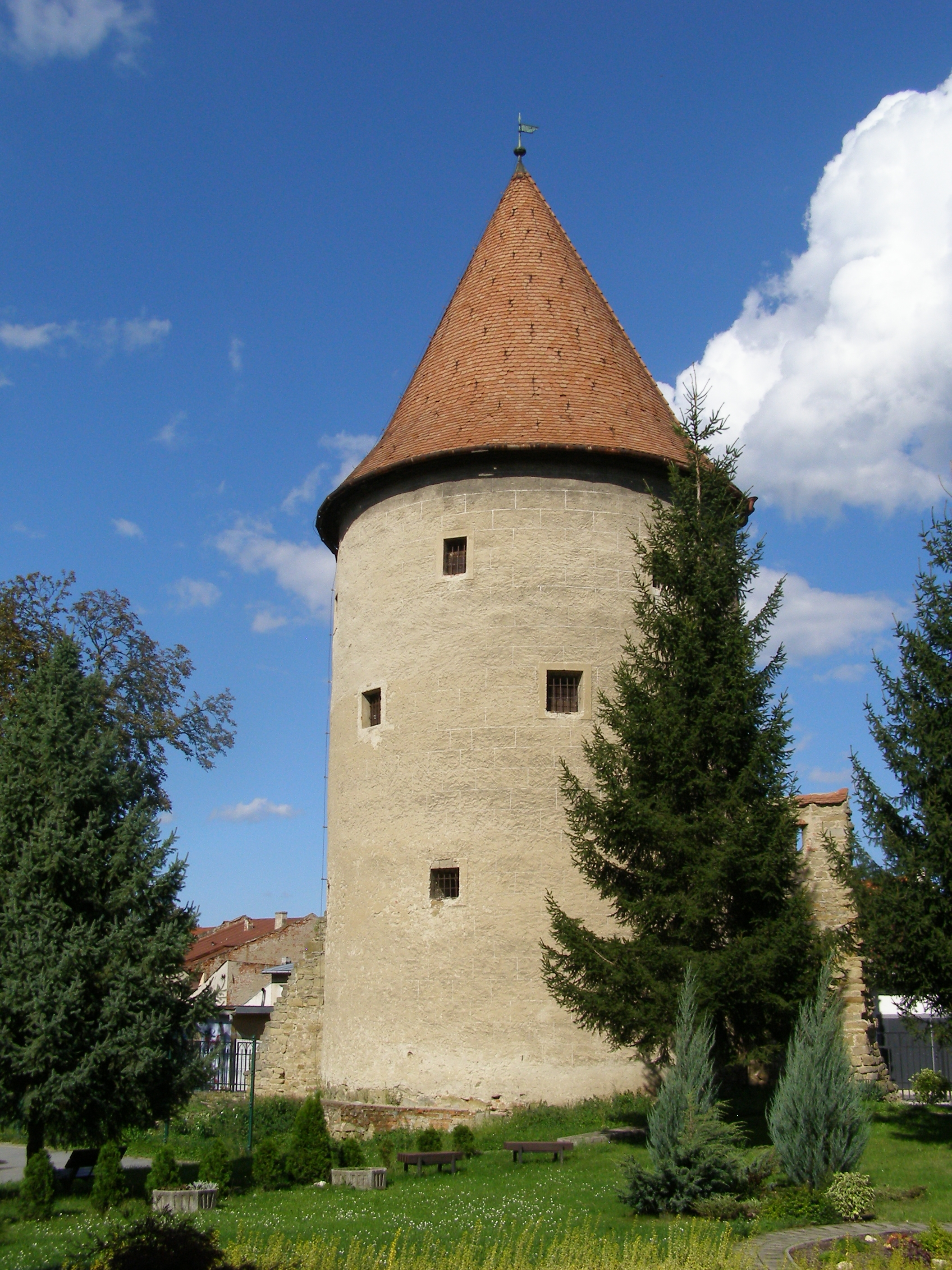 Bardejov - School Tower